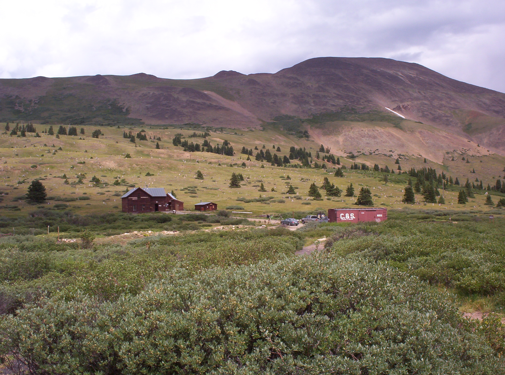 Boreas Pass in Colorado. Boreas Pass section house in center.